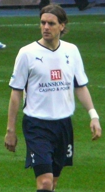 Jonathan Woodgate